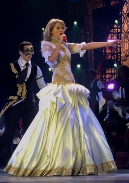 Taylor Swift at O2 Arena during the performance of I Knew You Were Trouble